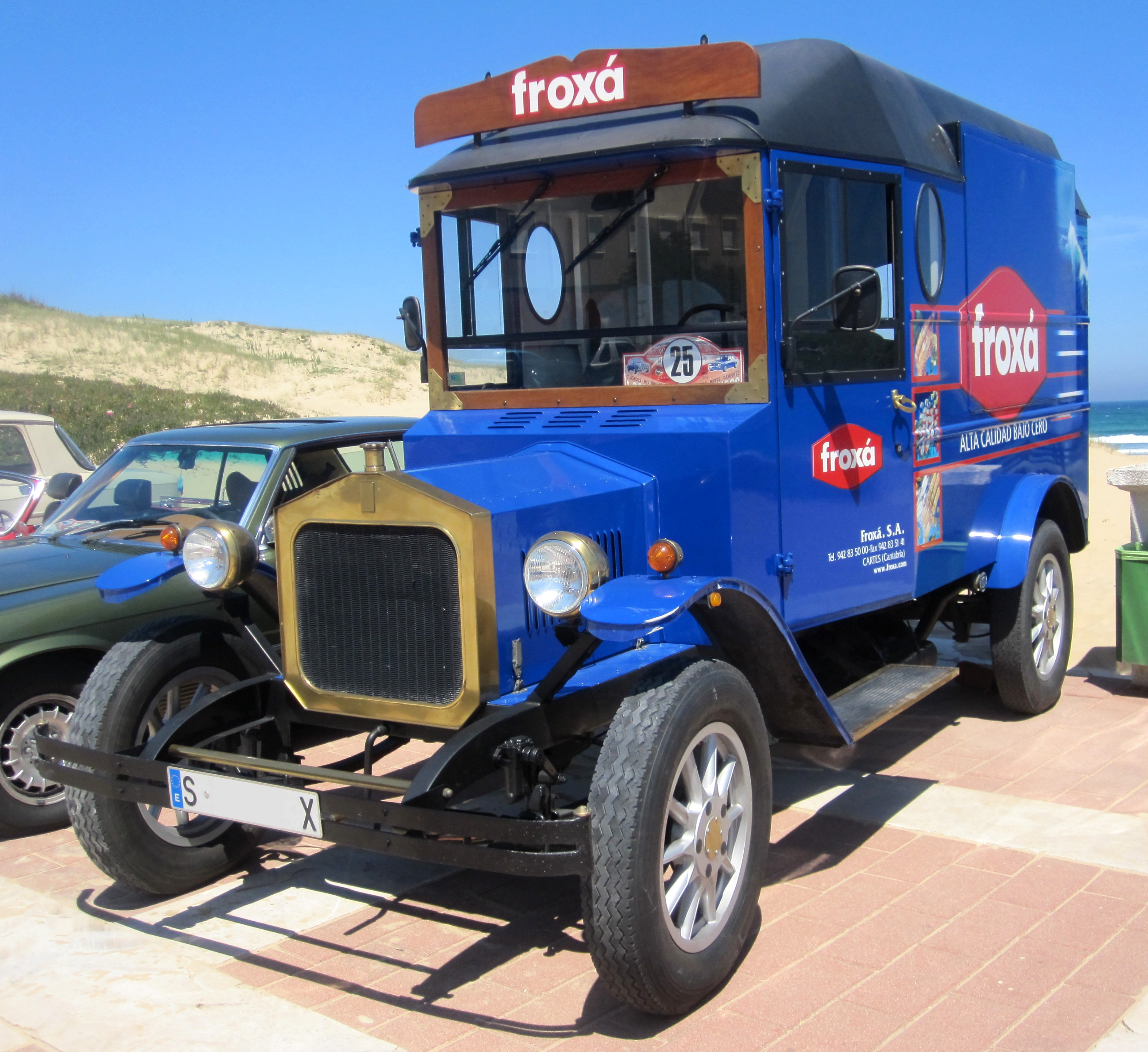 I've known this truck for many many years now but hadn't seen it again for ages, so I was quite happy to be able to see it again and snap it. I always took it for a real vintage truck but turns out not. Fleur de Lys is (or was) aparently an English brand that made retro-styled trucks like this using Ford Transit chassis. All I've found is a photo of one in a movie but nothing else. I can't find info about the brand on the net so if some of you know something about it don't hesitate of sharing. 1991 plates from Santander (Cantabria) and seen in suances (Cantabria).